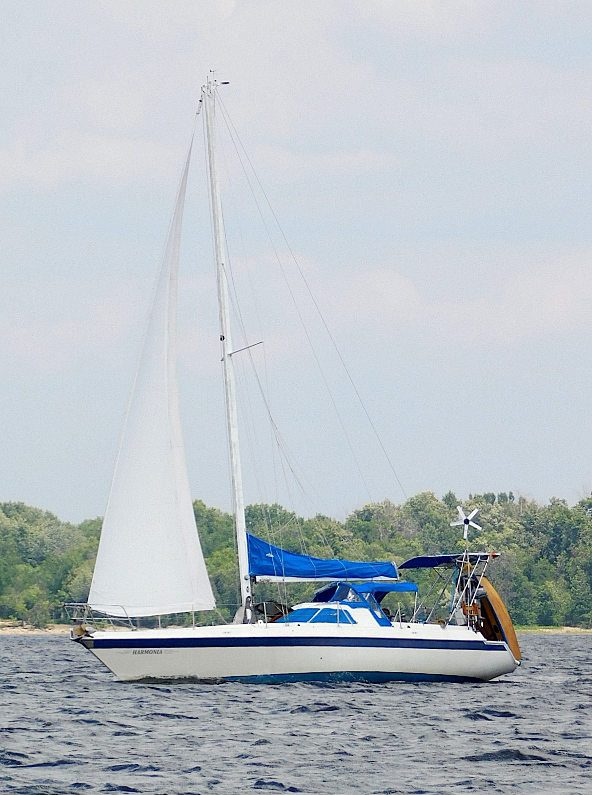 A Tanzer 10.5 sailboat named Harmonia.